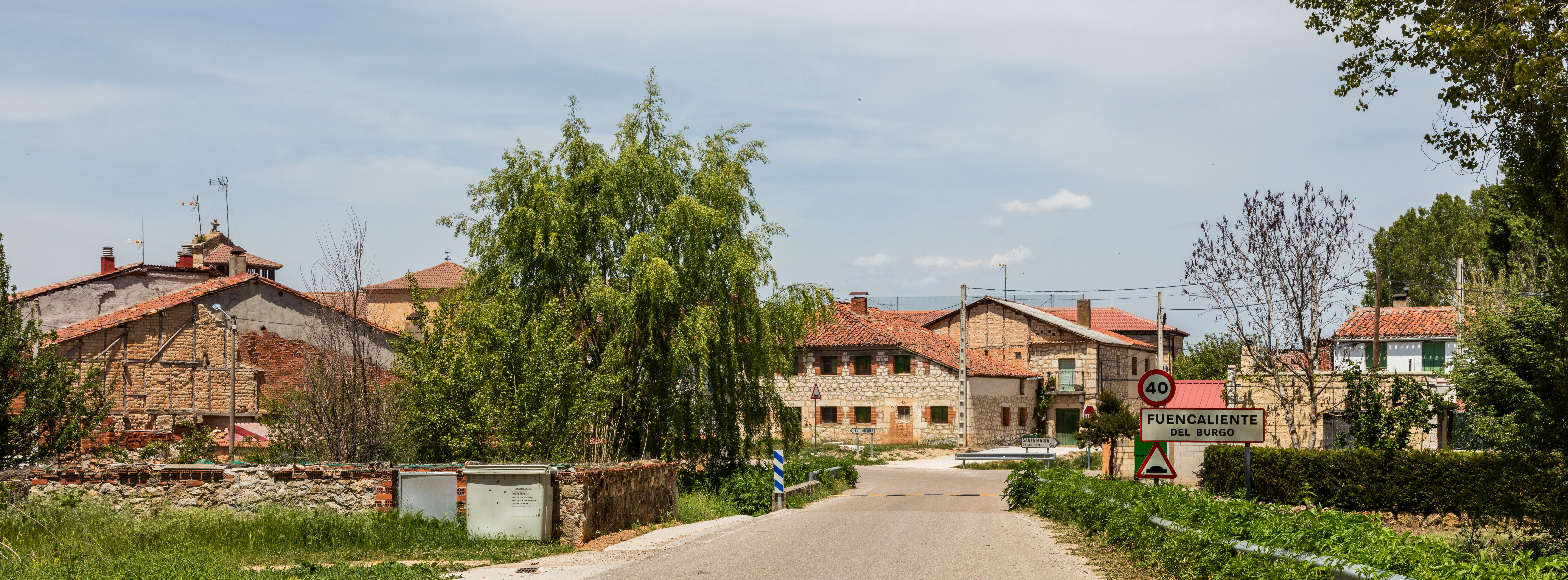 Fuencaliente del Burgo, Soria, Spain